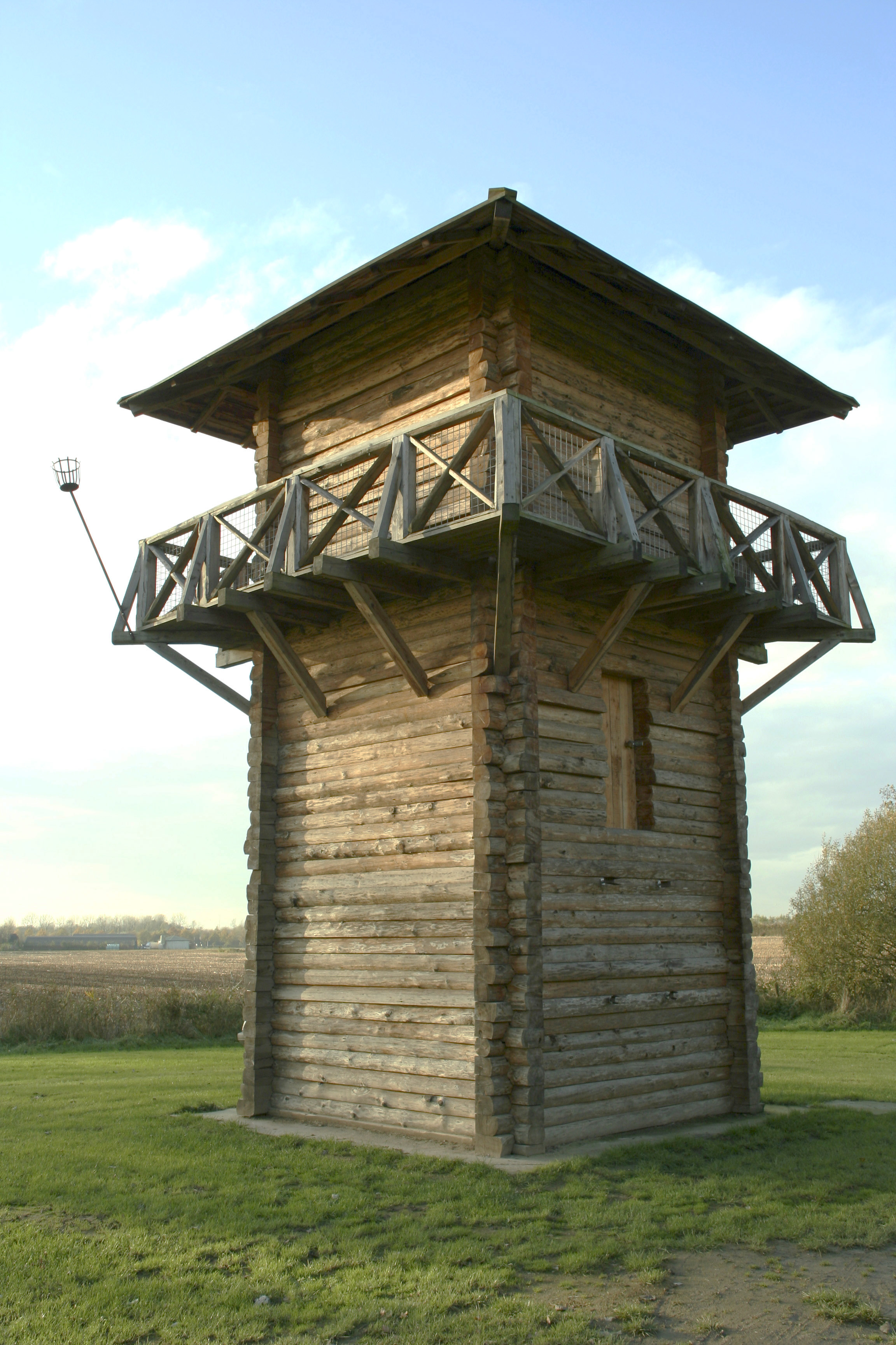 Reproduction of a Roman Watchtower near Fortress 'Vechten', Utrecht, the Netherlands. Photographed in November 2005 by Niels Bosboom.